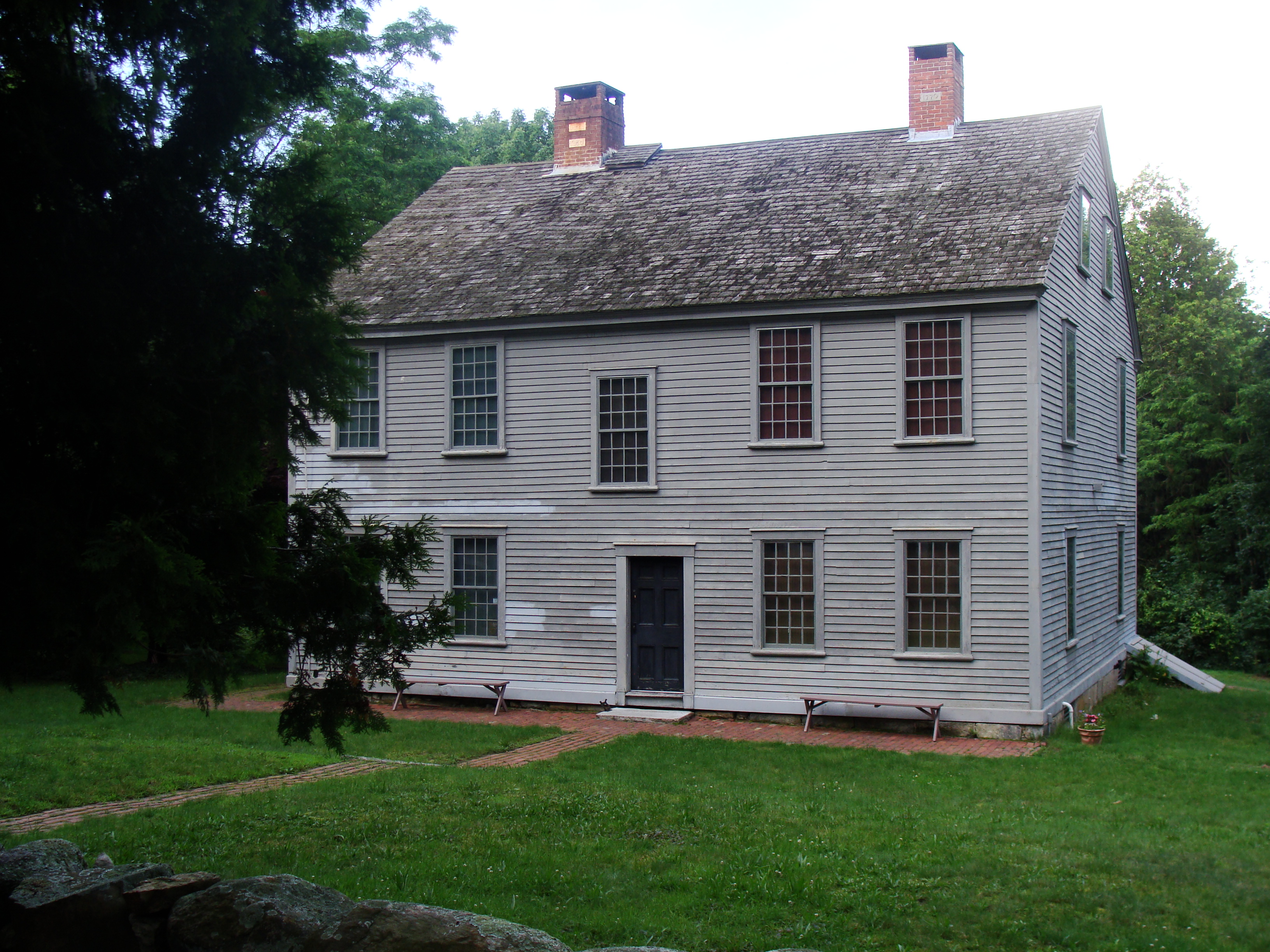 The front of the General Nathanael Greene Homestead in Coventry, Rhode Island.